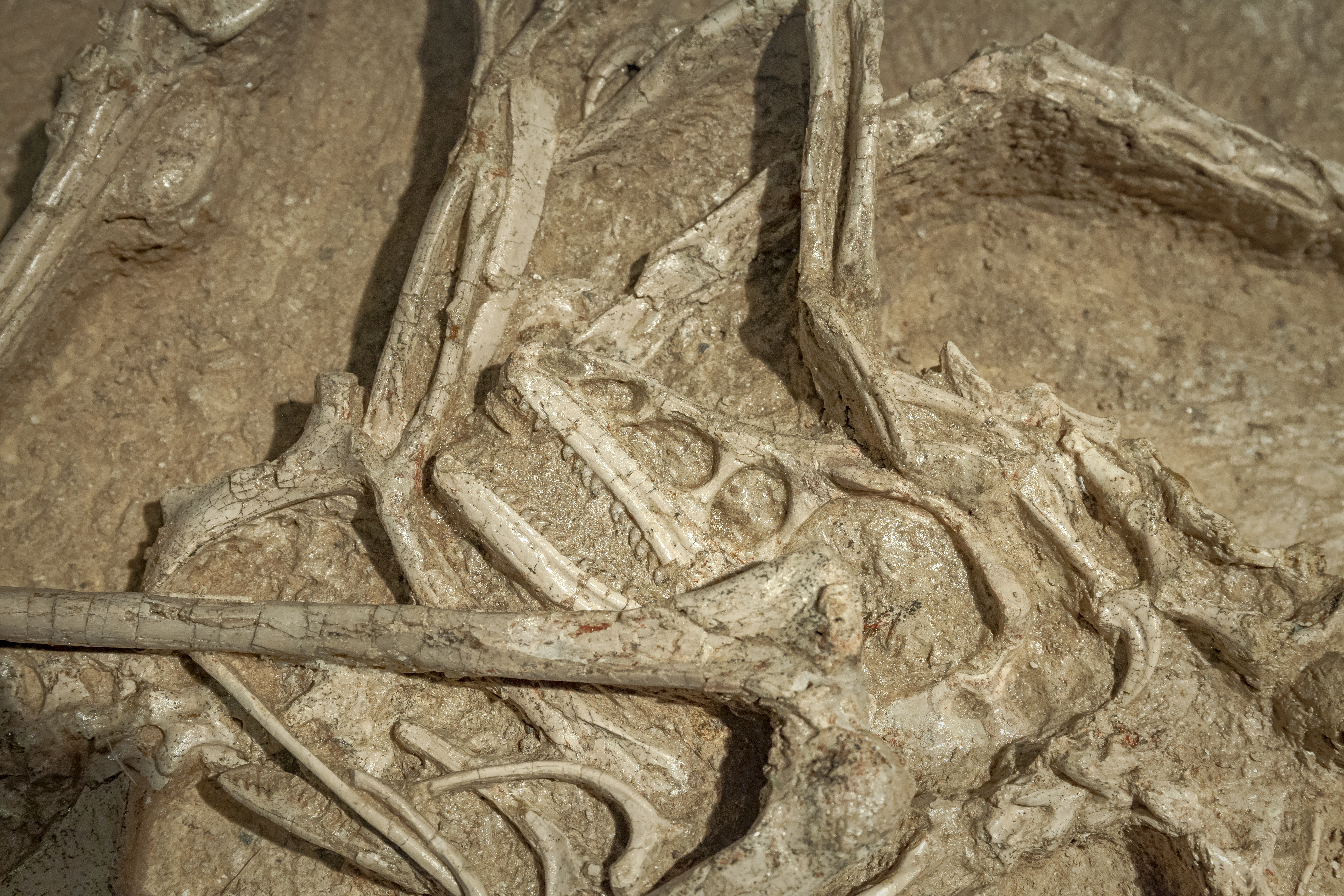 The skull of Sinovenator sp., which is collected from Beipiao, Liaoning, China. This specimen (BMNHC Ph798) is a collection of Beijing Museum of Natural History and was on display in National Museum of Natural Science (Taichung, Taiwan) during a special exhibition.